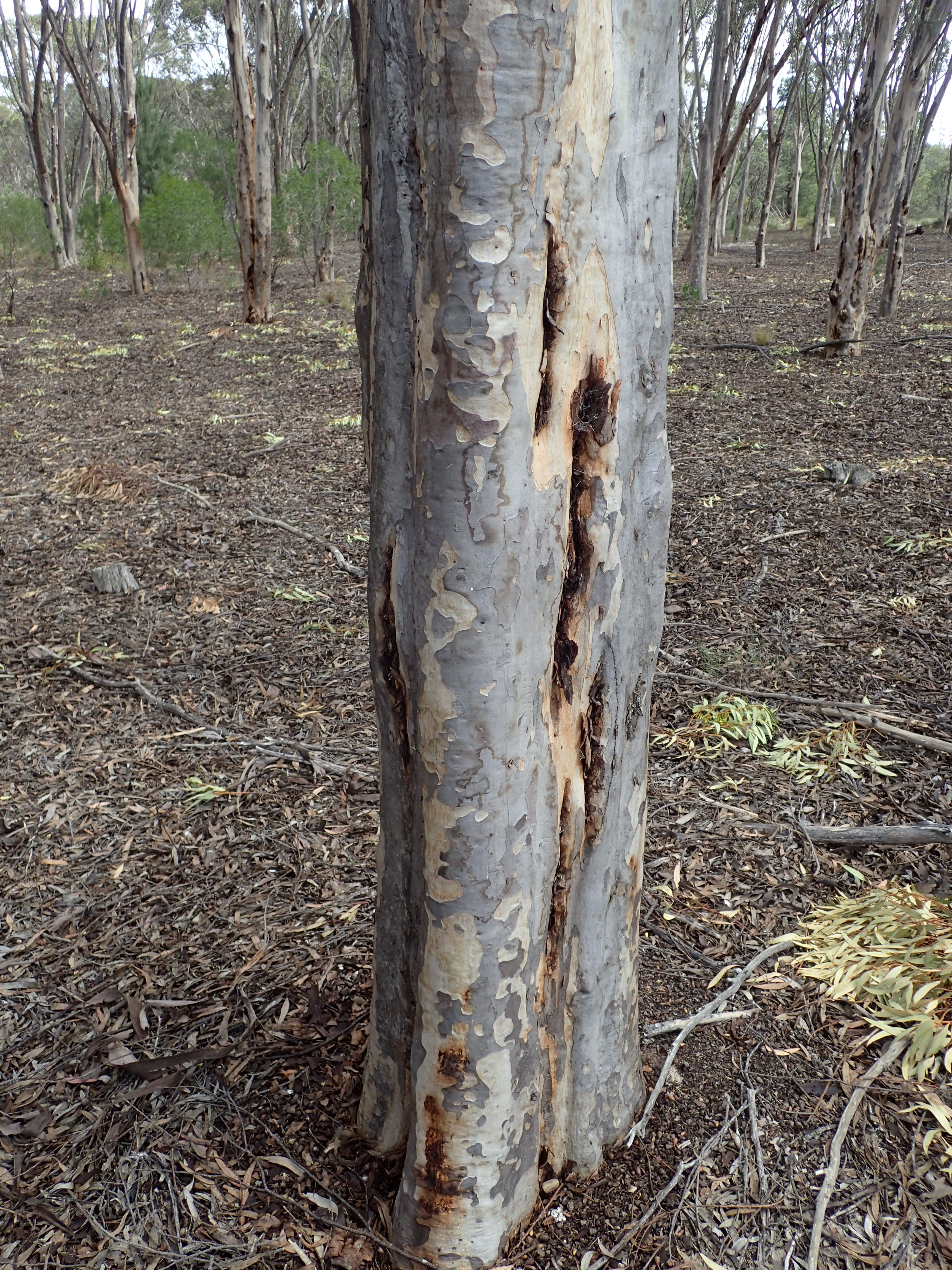 Bark of Eucalyptus astringens in Helms Arboretum, near Esperance, W.A.